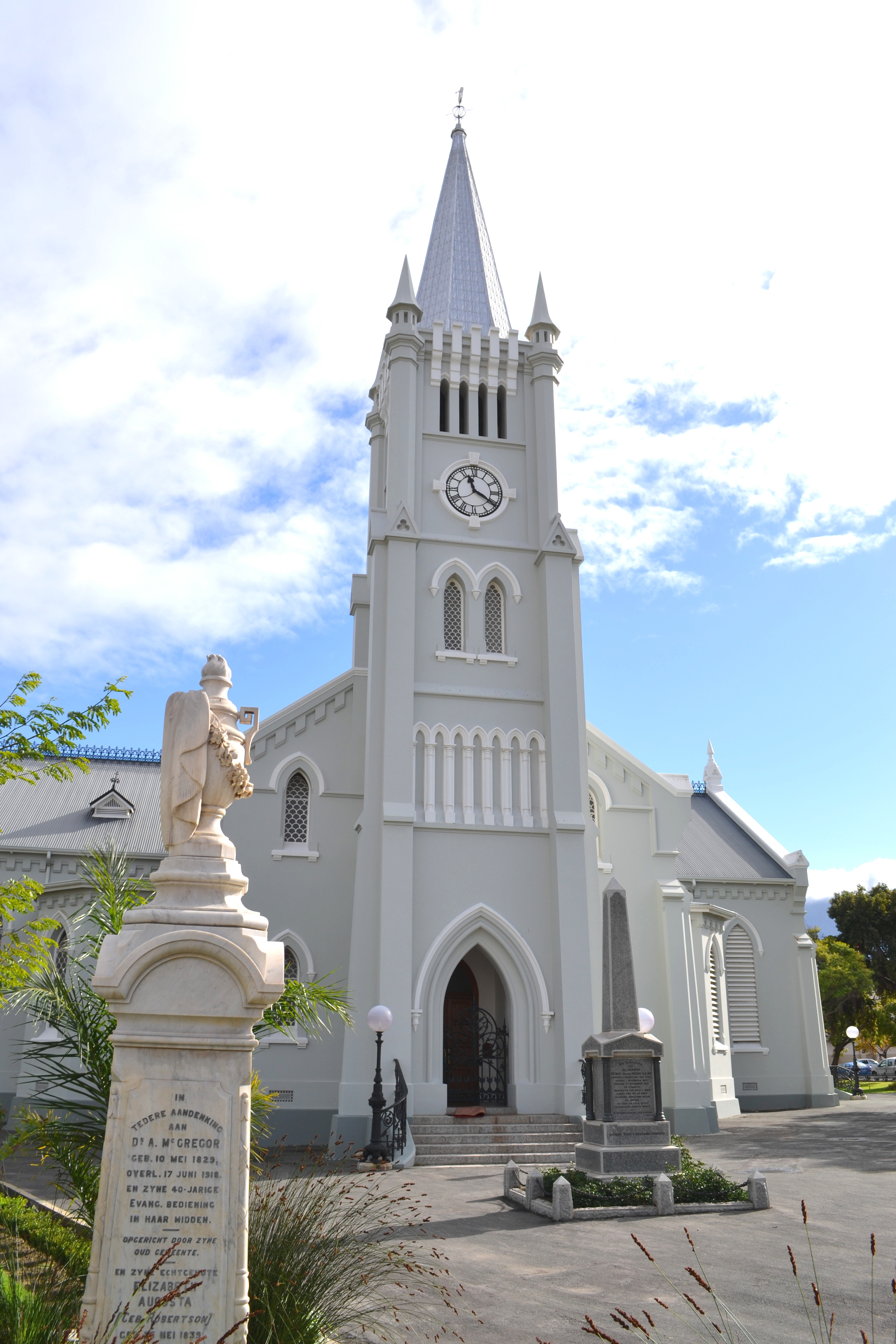 39 Paul Kruger Street, Robertson, Western Cape.